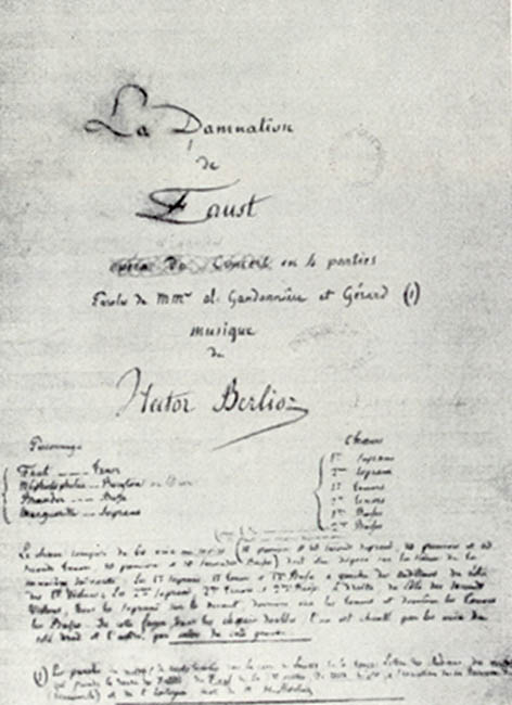 First page of original manuscript of La Damnation de Faust by the French composer Hector Berlioz